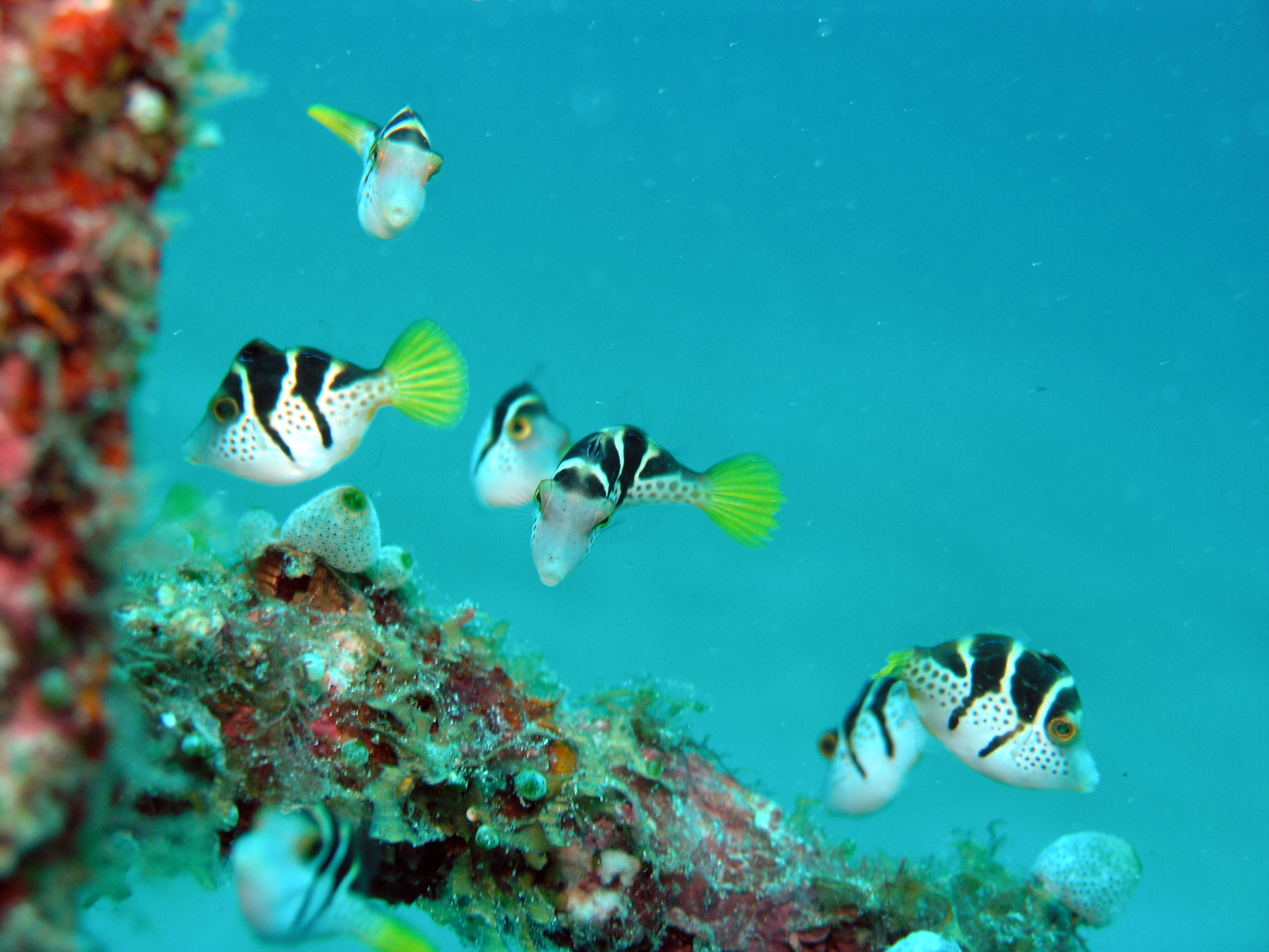 Picture of Blacksaddle filefish. Paraluteres prionurus. Taken at Tasik Ria, Manado, Indonesia.